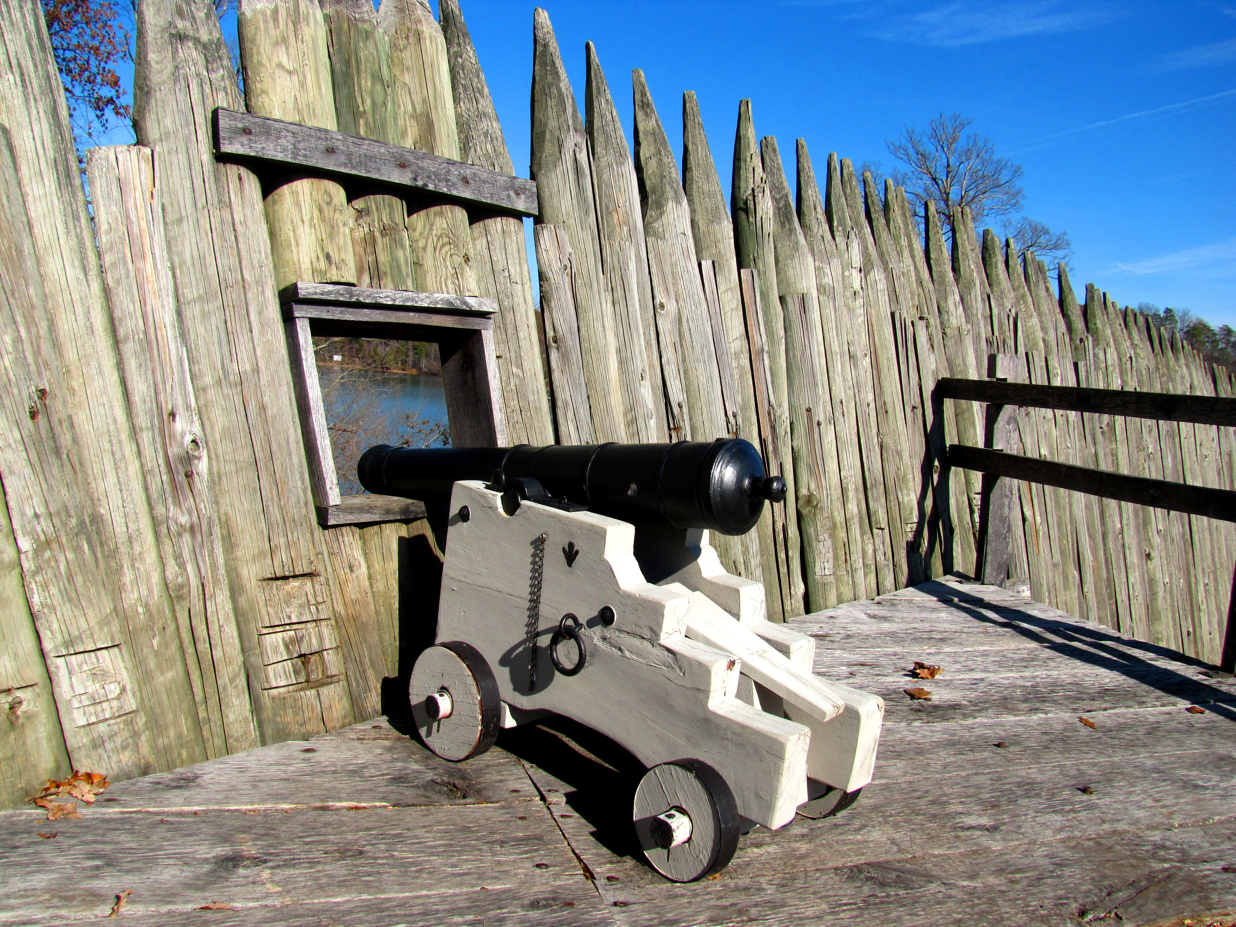 Cannon at the reconstructed Fort Loudoun in Monroe County, Tennessee, United States.